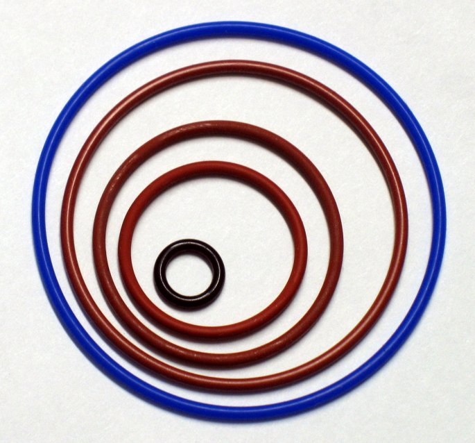 collection of O-rings of different diameters